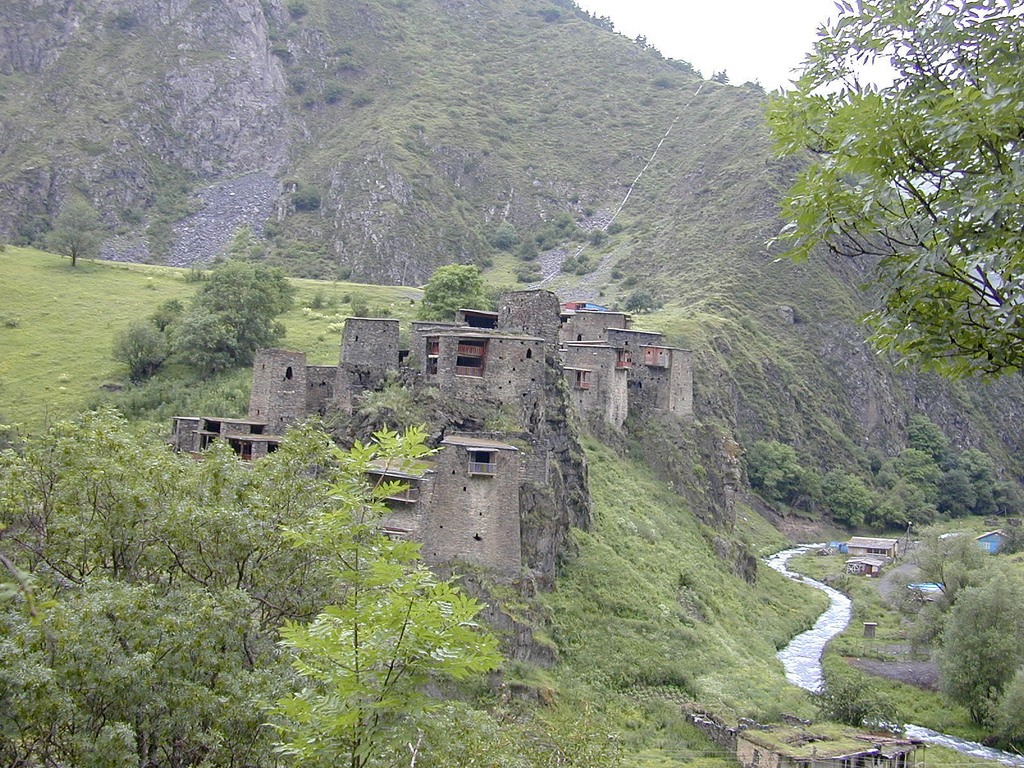 Shatili and the river